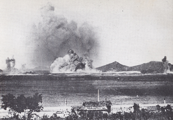 Battle of Lake Khasan-Soviet aerial bombardment against Zaozernaya Hill